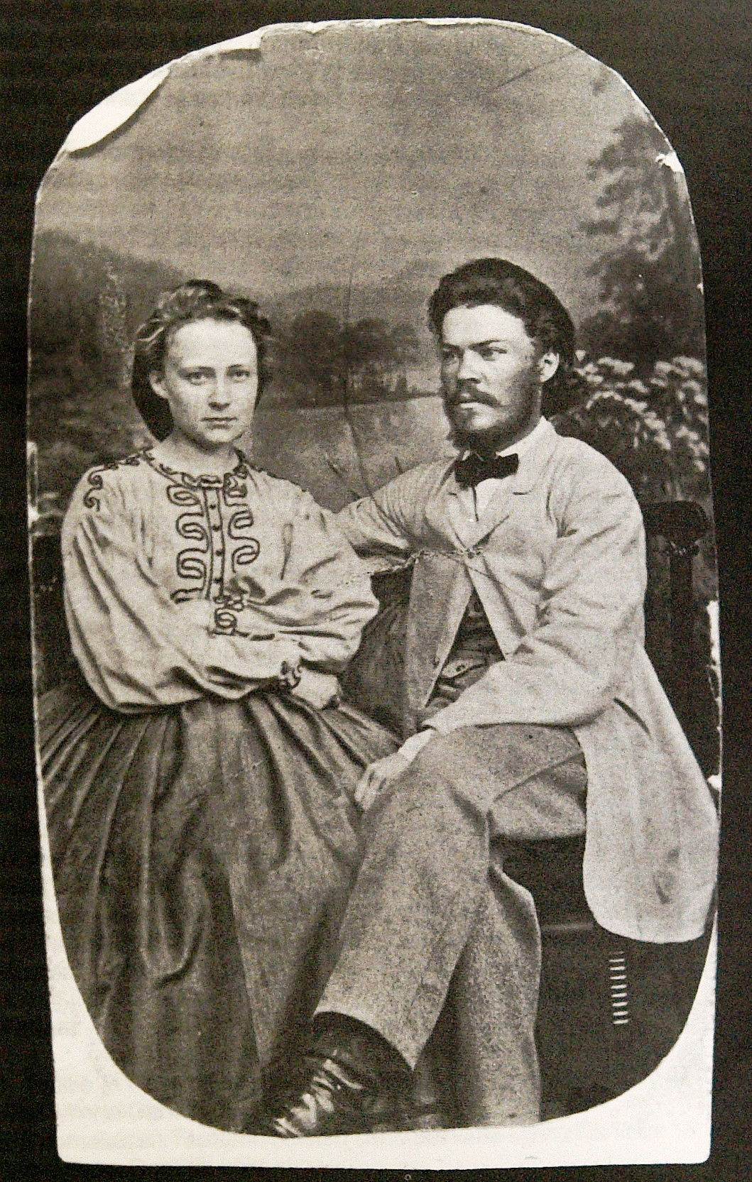 Finnish author Minna Canth (1844-1897) and lecturer (teacher) Johan Ferdinand Canth (1835–1879) in Jyväskylä.